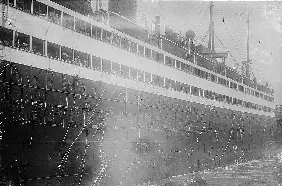 The SS George Washington as she departs for a voyage. Confetti is being thrown.